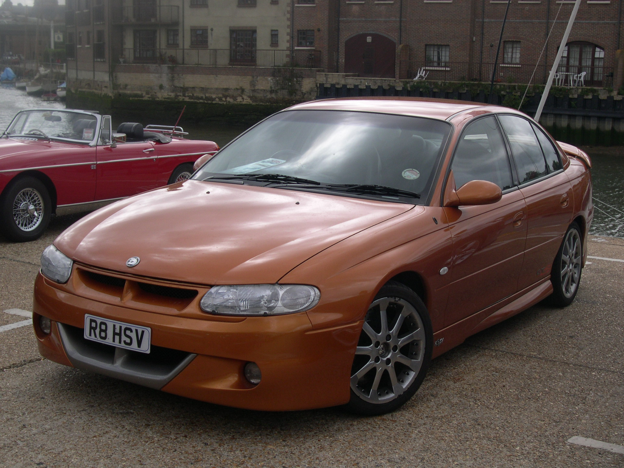 1997–1999 HSV GTS (VT) sedan, photographed at the 2004 Classic Car Show, Newport, Isle of Wight, England.